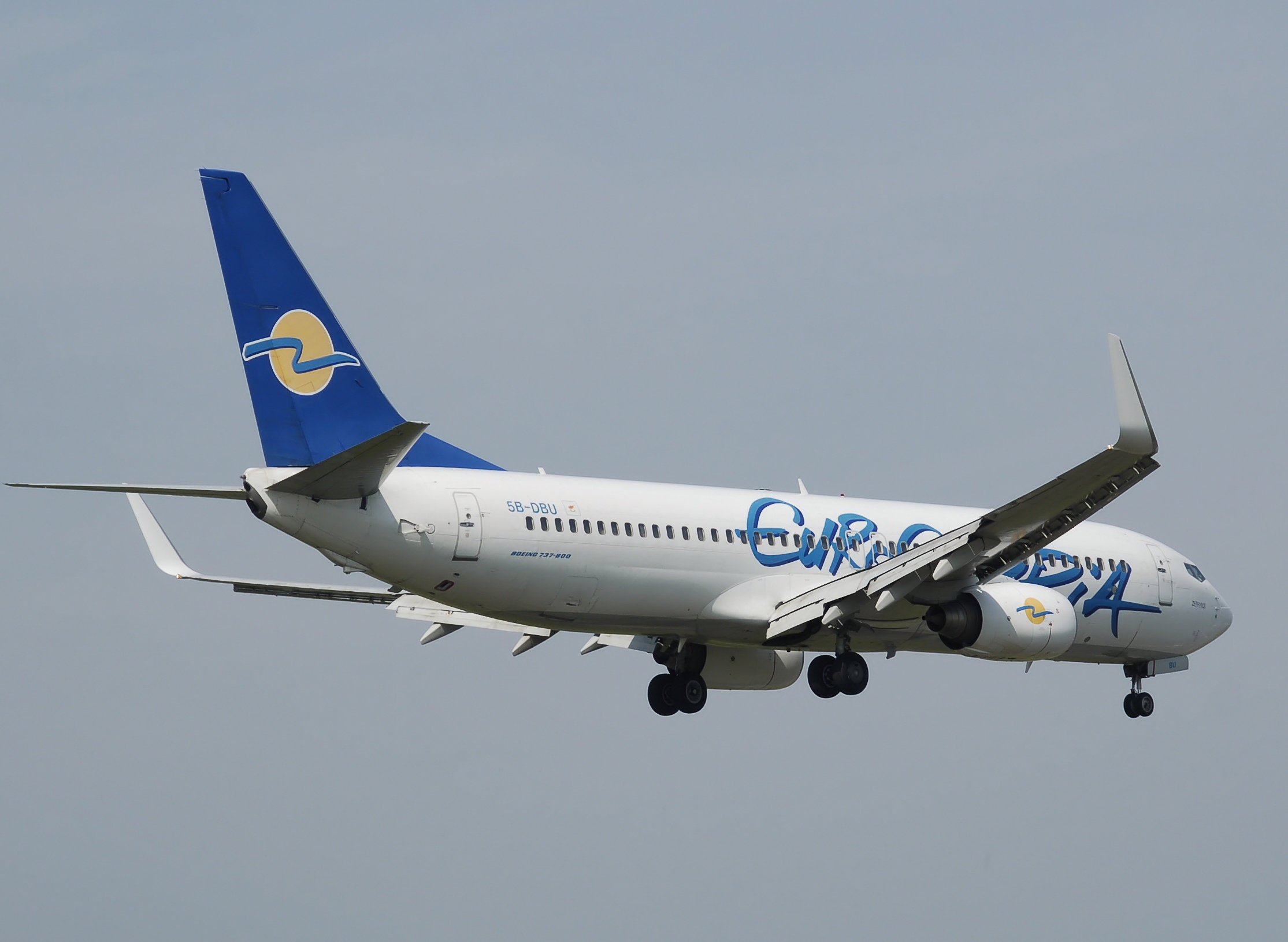 Eurocypria Boeing B737-800 (5B-DBU) lands at Birmingham International Airport, England.